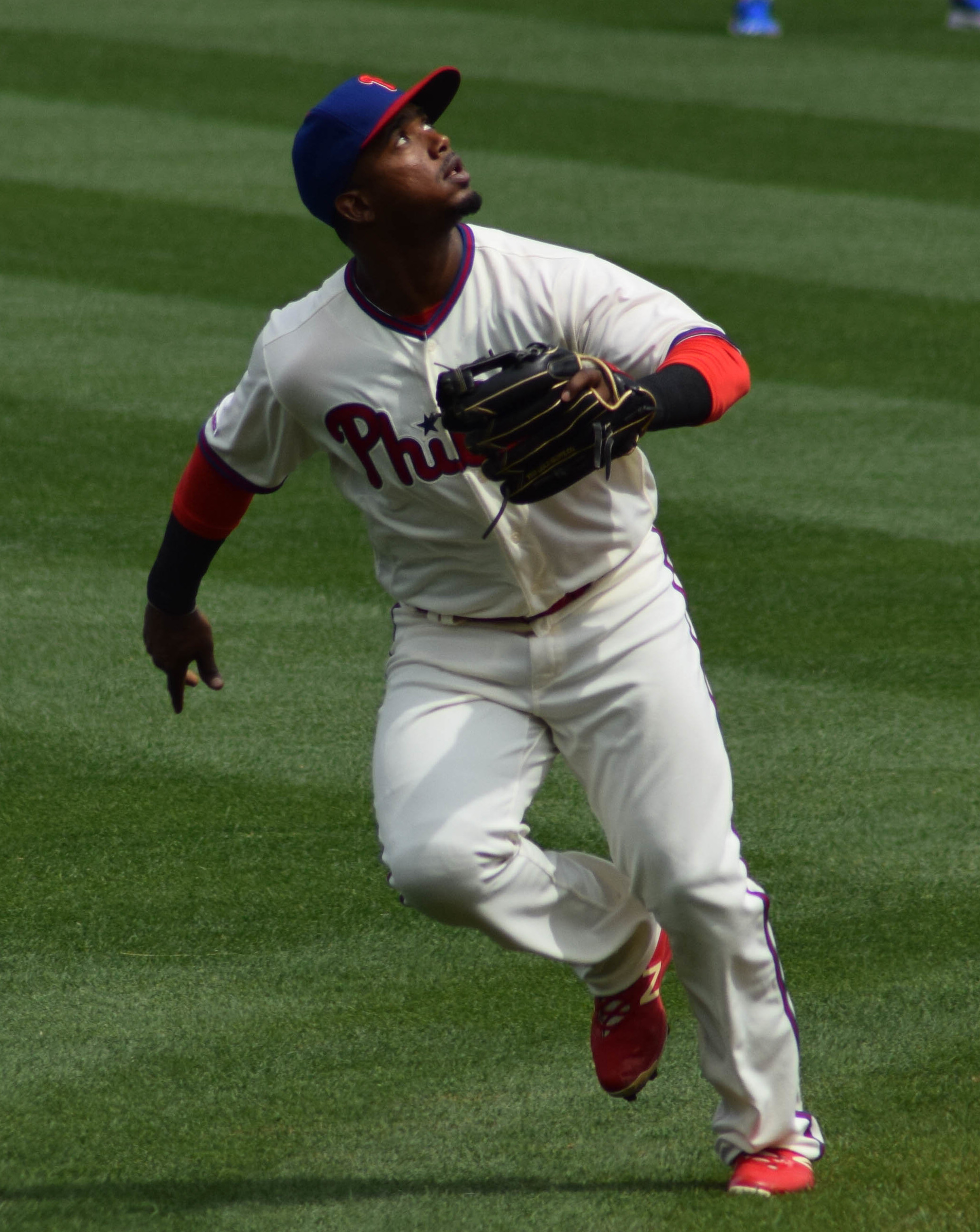 Jean Segura of the Philadelphia Phillies pursues a pop up during a 2019 game at Citizens Bank Park in Philadelphia.